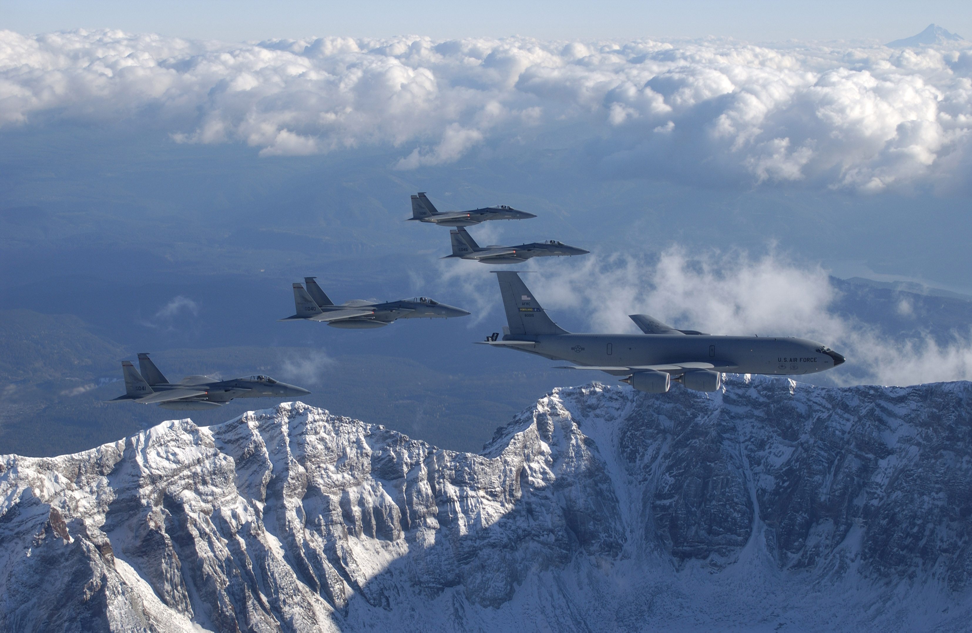 A KC-135 Stratotanker from the 939th Air Refueling Squadron, and four F-15 Eagles from the 123rd Fighter Squadron, fly over the Northwest Cascade Mountains during a mission. Both units are assigned to the 142nd Fighter Wing located at Portland International Airport, Portland, Oregon, Oregon Air National Guard, Nov 3, 2003. (U.S. Air Force Photo/Tech. Sgt. Michael Ammons)